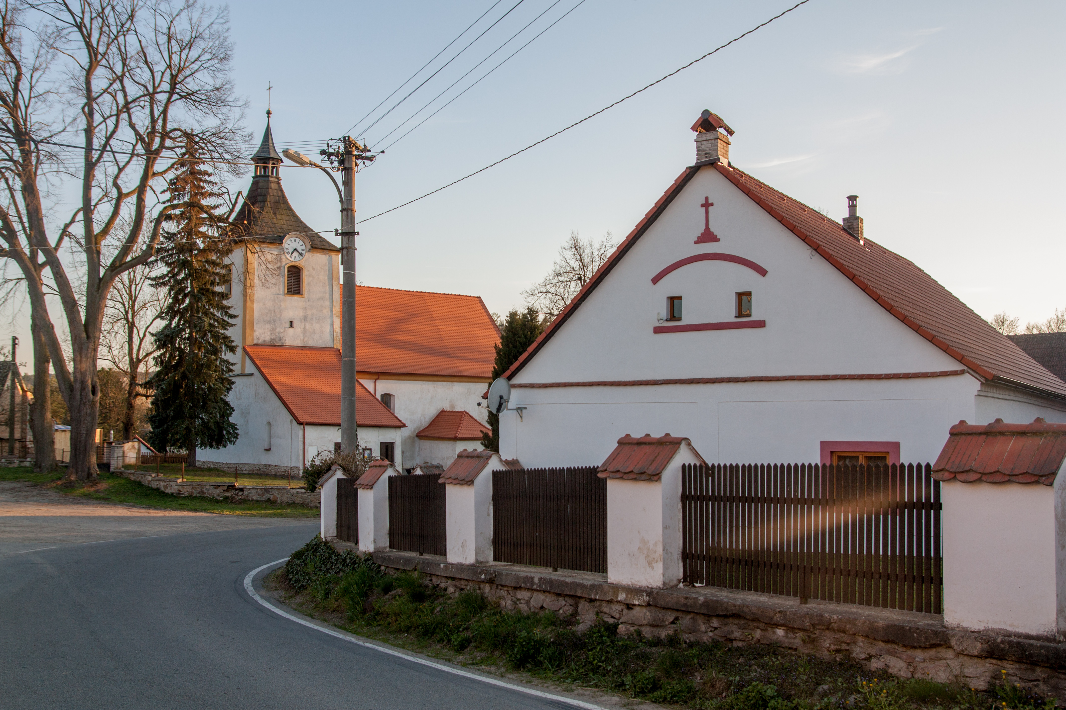 House in municipality Nová Ves u Mladé Vožice, Tábor District, South Bohemian Region, Czechia